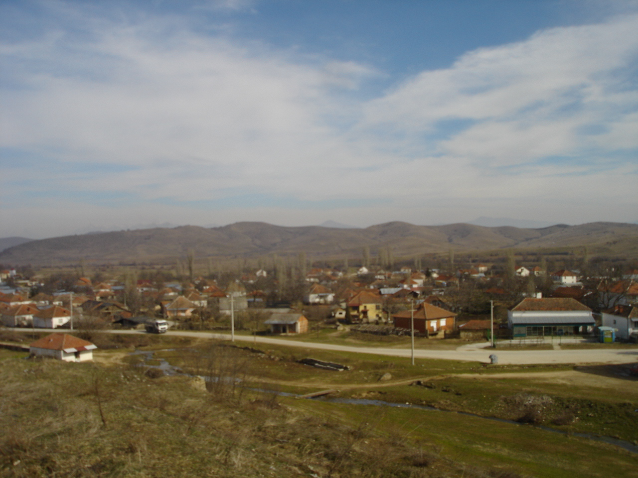 village of Ivanjevci, near Bitola, Macedonia